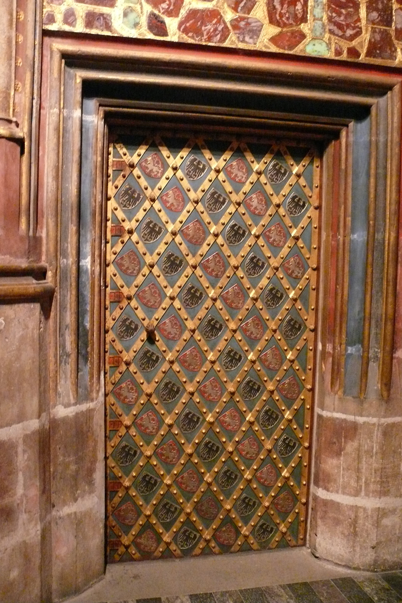 Saint Wenceslas Chapel (St. Vitus Cathedral)